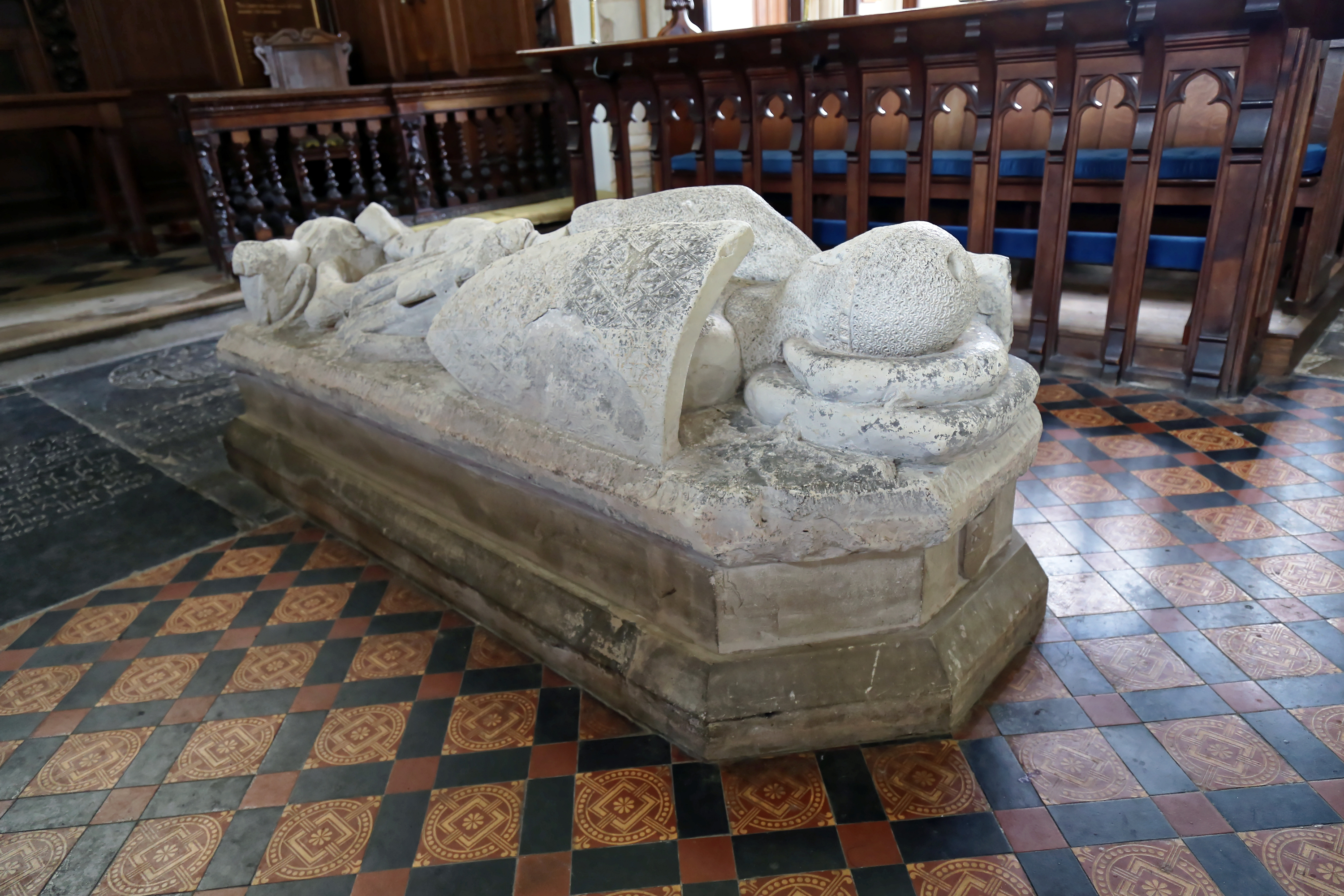 The chancel effigy of Robert de Vere, 3rd Earl of Oxford (c.1165 –1221), in St Mary the Virgin's Church, Hatfield Broad Oak, Essex, England.Robert de Vere founded the Benedictine Hatfield Regis Priory, the remains of which is included in this church.Camera: Canon EOS 6D with Canon EF 24-105mm F4L IS USM lens.Software: file lens-corrected and optimized with DxO OpticsPro 10 Elite and Viewpoint 2, and further optimized with Adobe Photoshop CS2.